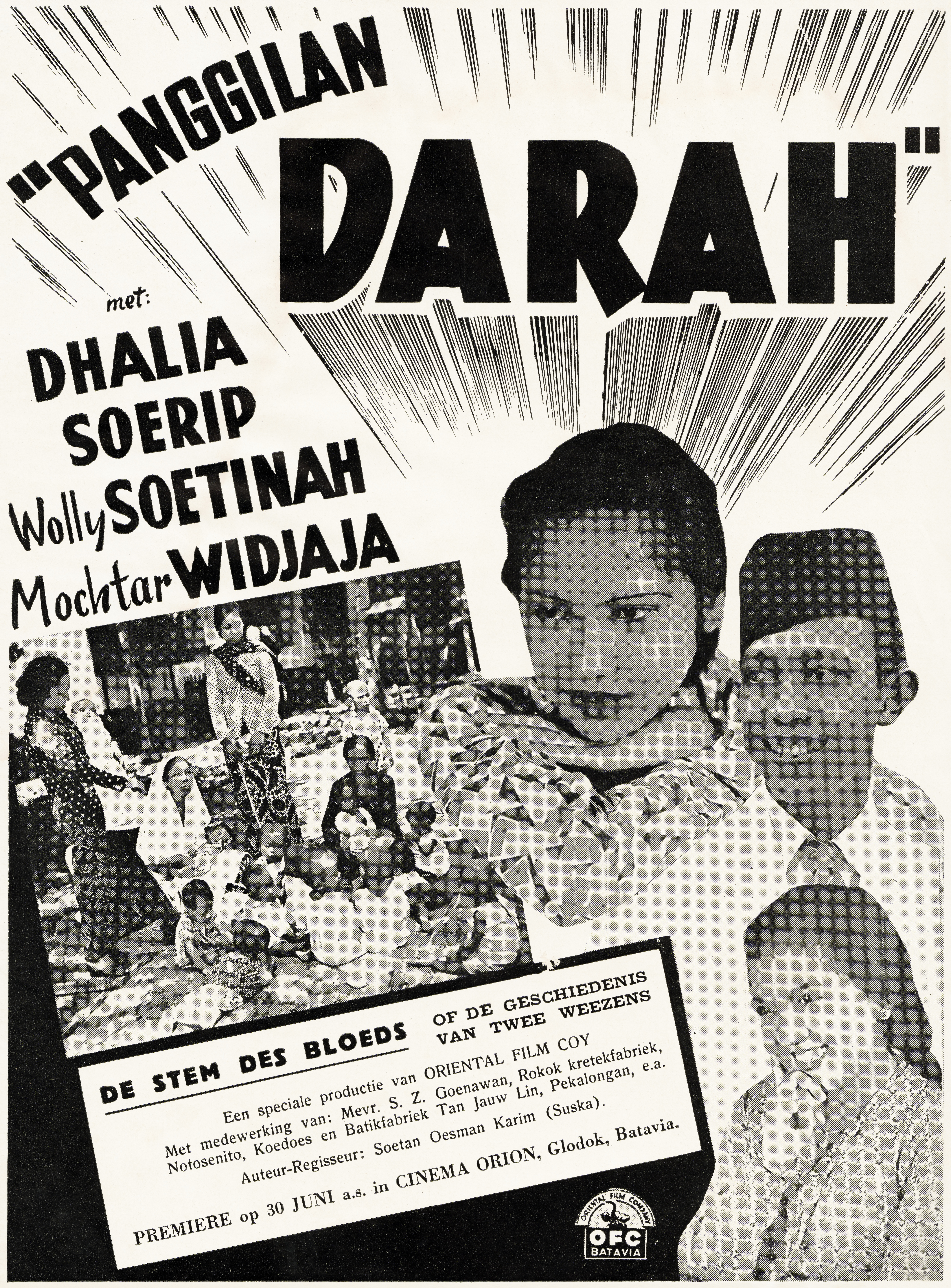 Dutch-language magazine advertisement for Panggilan Darah (1941), published in De Orient. This advertisement was purchased by Crisco 1492 as a clipping; as such, no page number is available. The reverse of this advertisement is an ad for the premier of the 1941 Hollywood film Back Street